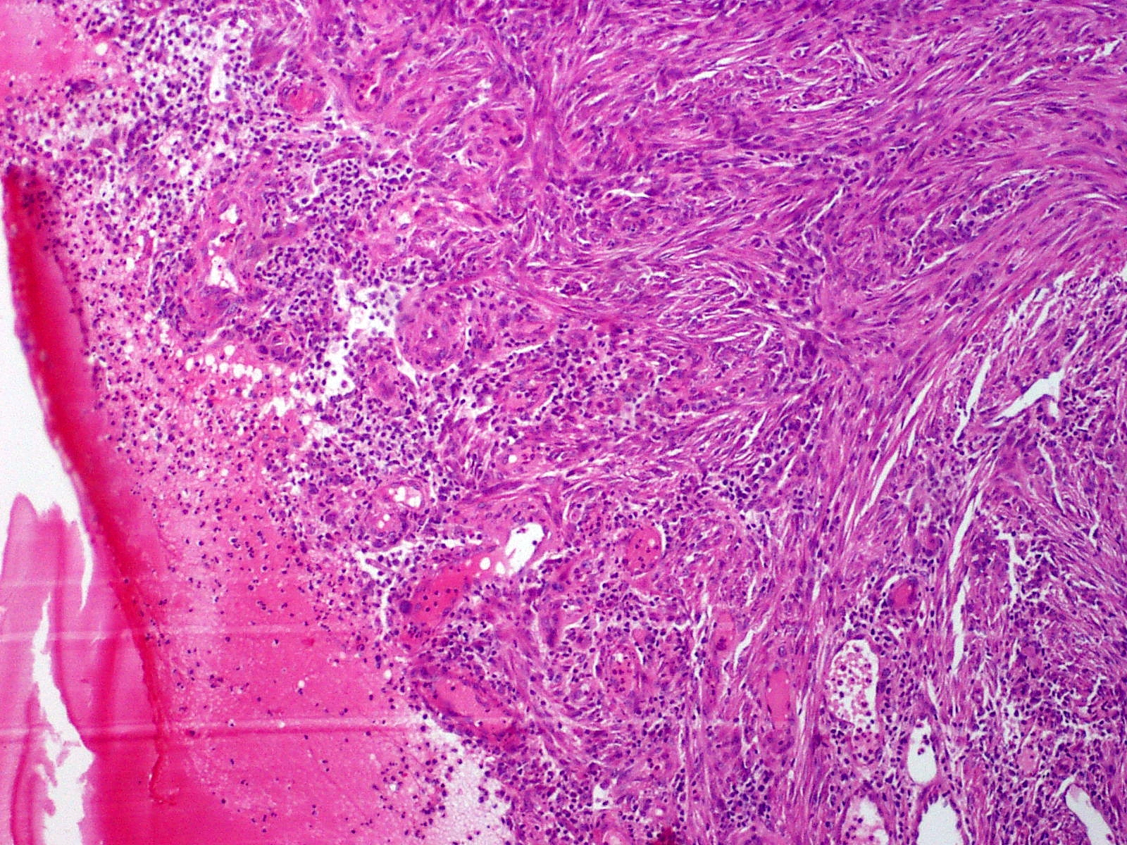 Fibrosarcoma